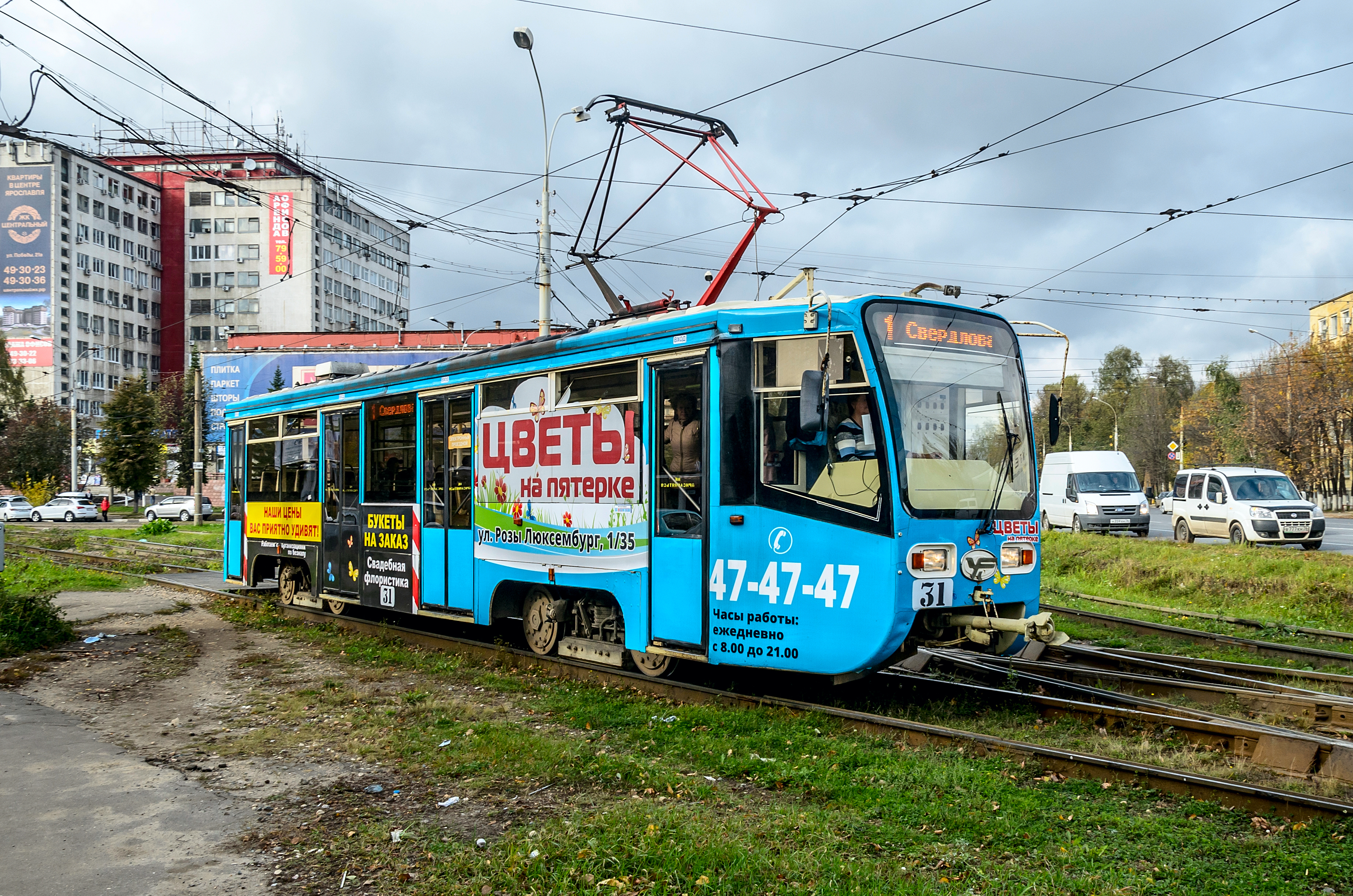 Tram KTM-19 at Oktyabrya Avenue in Yaroslavl